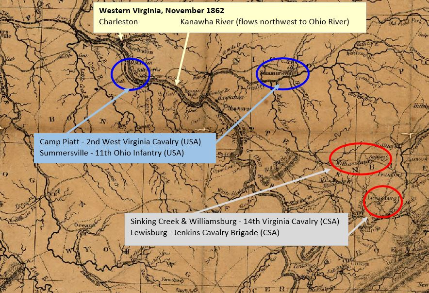 The base map is a portion of a map created by West & Johnson and published in Richmond in 1862. It was downloaded from the US Library of Congress, and modified by TwoScarsUp by adding labels and circles for points of interest involving the Sinking Creek raid made by Union Cavalry during November 1862 in western Virginia - which became West Virginia